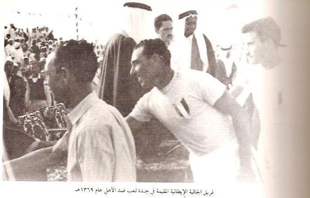 Italian Community in Friendly Match Against Alahli